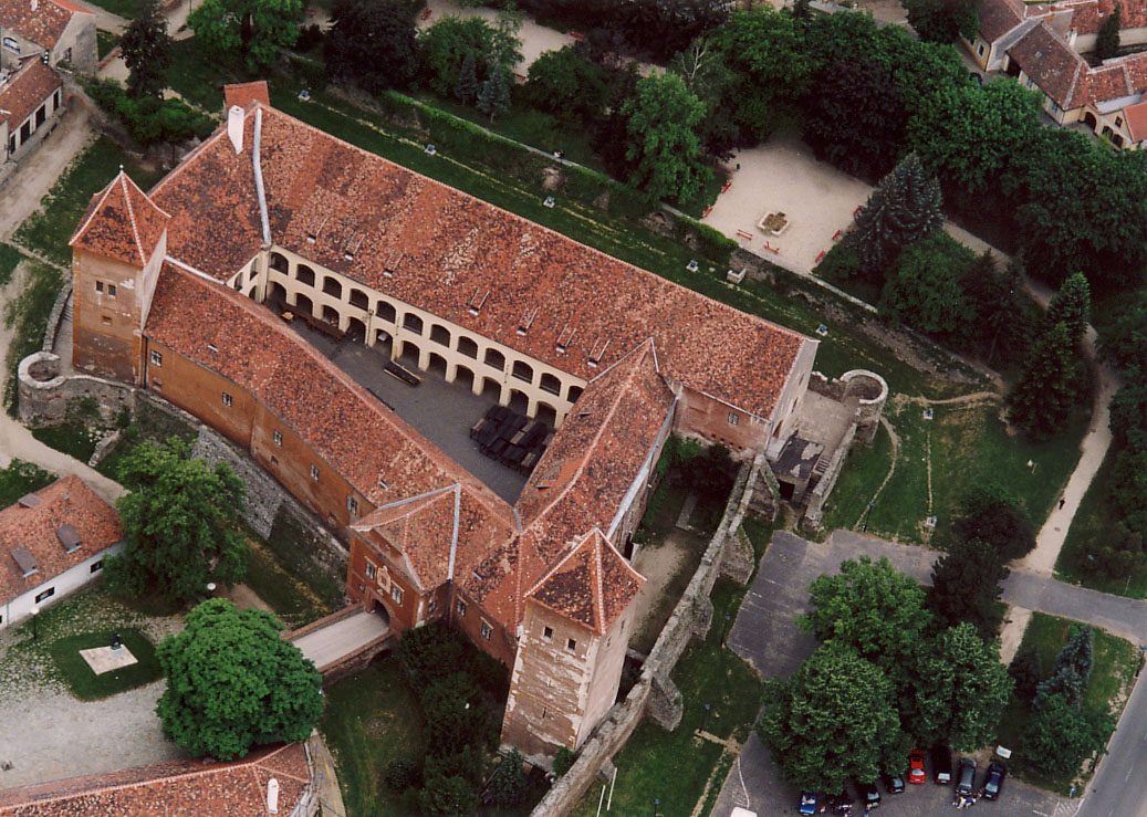 Jurisics Castle - Kőszeg - Hungary - Europe